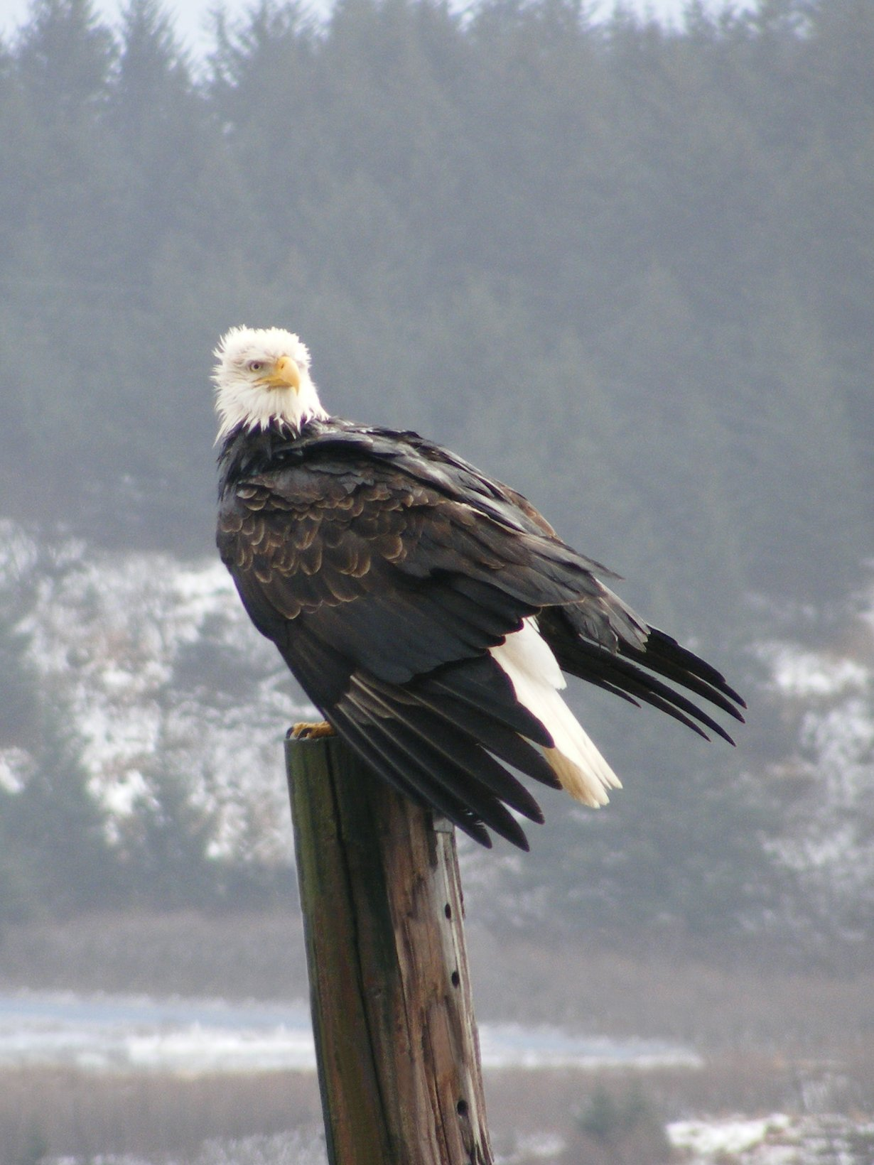 see source